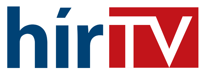 Logo of the Hungarian news TV channel: Hír TV.